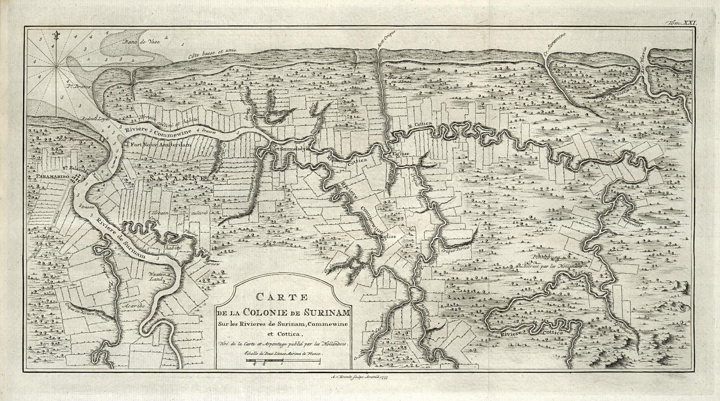 Map of Surinam. Carte de la Colonie de Surinam / Sur les Rivieres de Surinam, Commewine et Cottica / Tiré de la Carte et Arpentage publié par les Hollandois. Top right: Tom. XXI. Cf. Rijksmuseum Amsterdam, inv. nrs. NG-539 and NG-478.